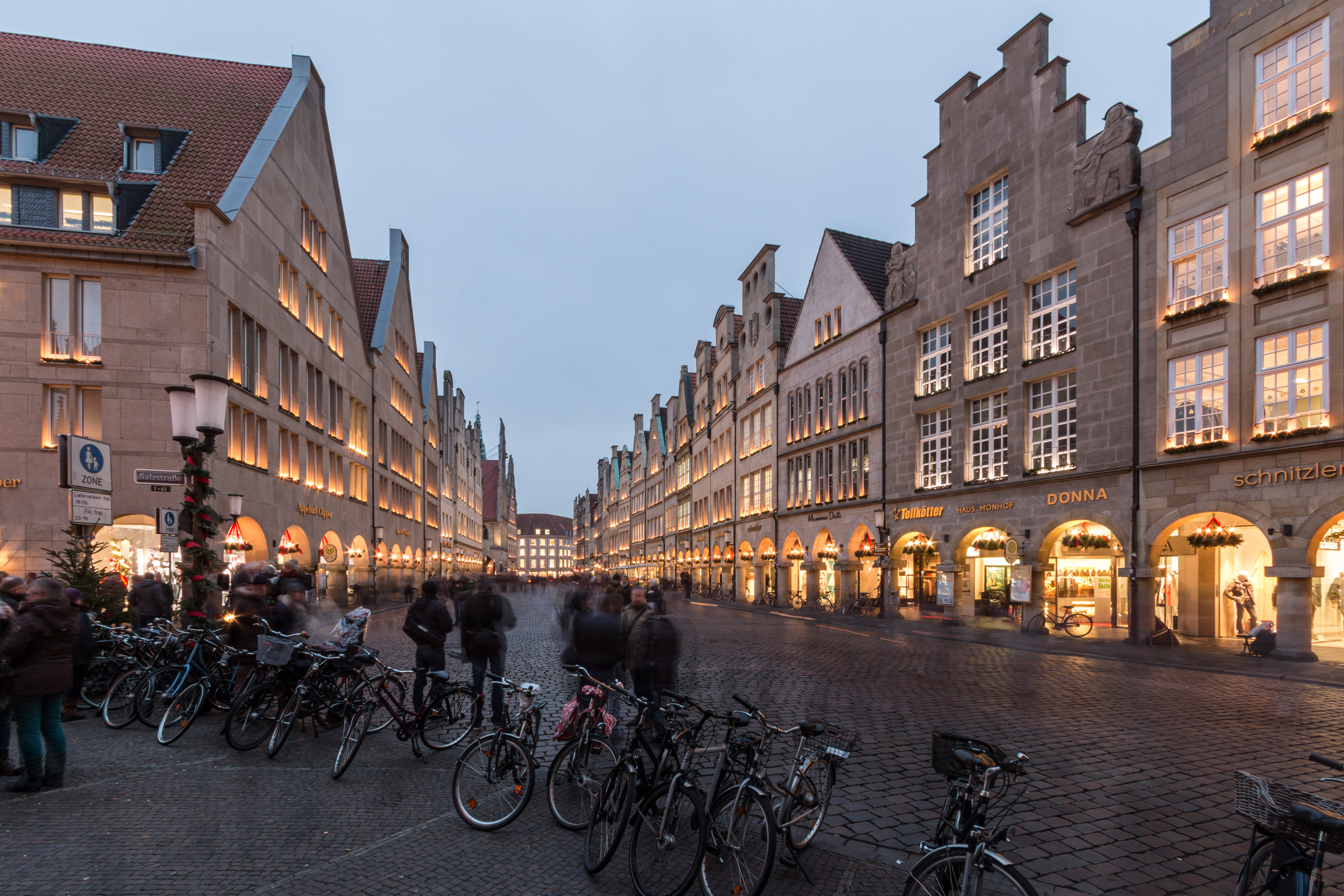 Prinzipalmarkt, Münster, North Rhine-Westphalia, Germany This image shows a heritage building in Germany, located in the North Rhine-Westphalian city Münster.